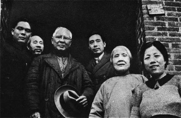 (from left to right) Situ Zhu (son of Situ Meitang), Dong Biwu, Situ Meitang, Zhou Enlai, Xu Zonghan (wife of Huang Xing), Deng Yingchao